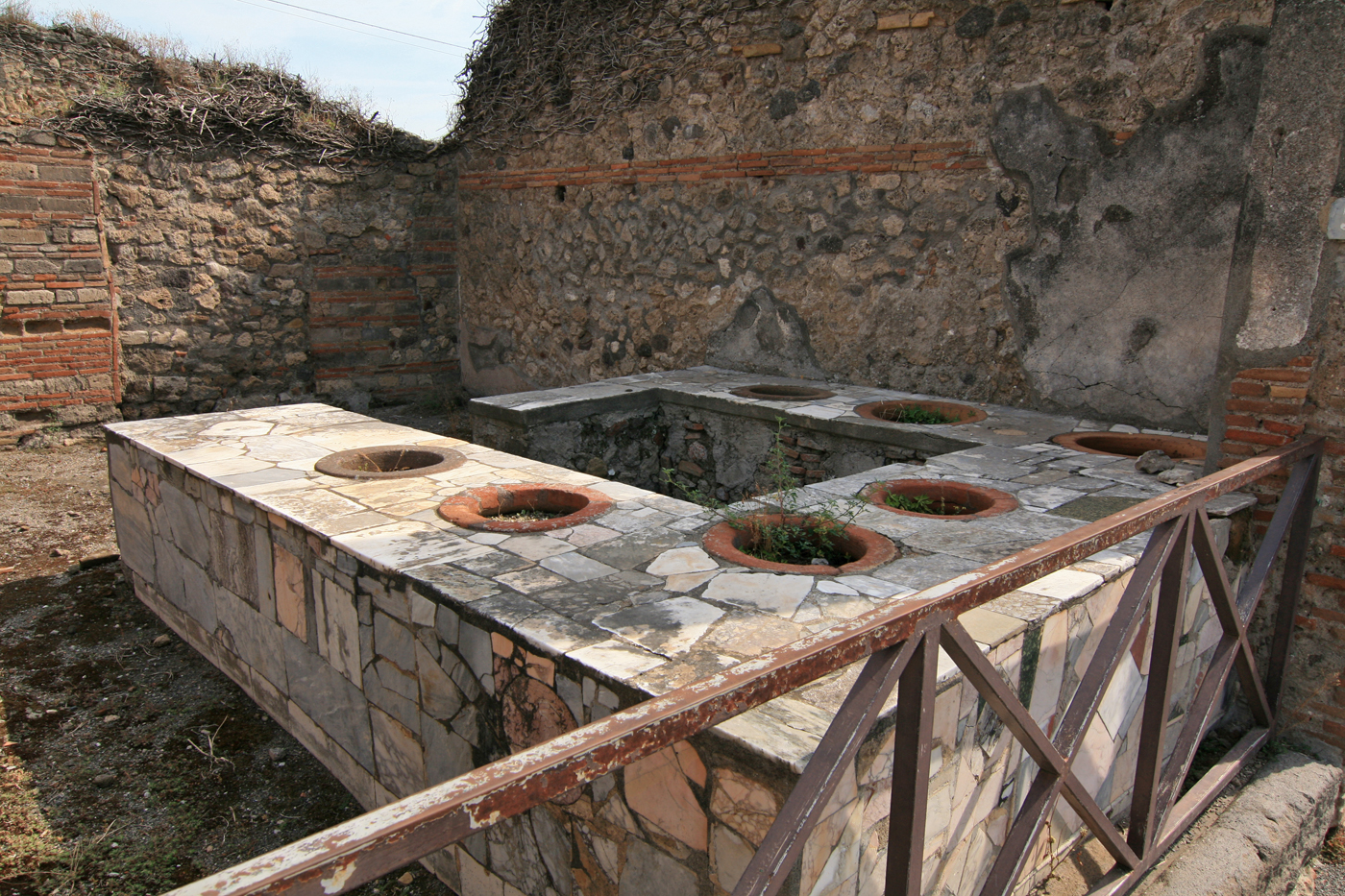 Thermopolium in Pompeii.